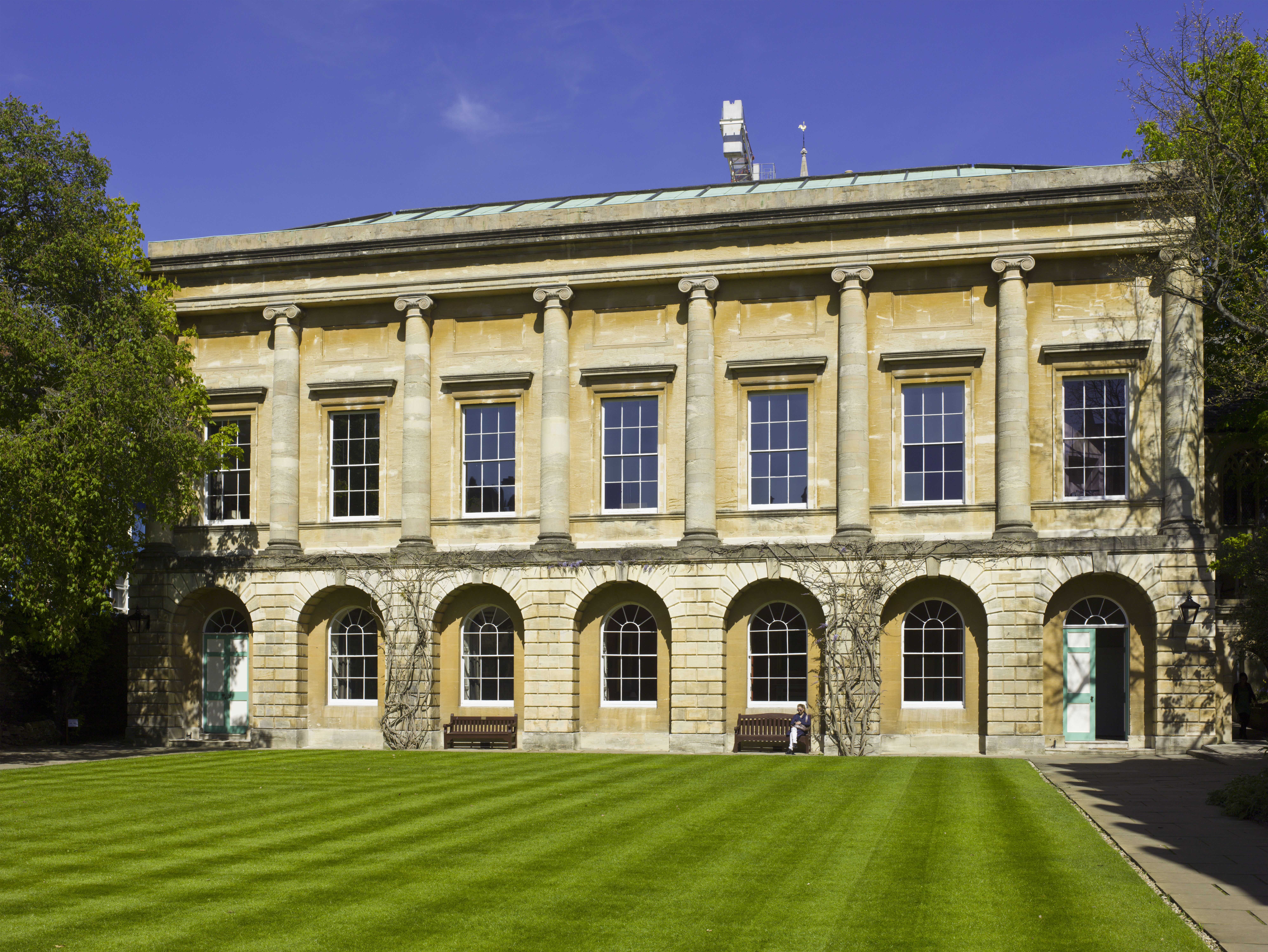 Oriel College (Oxford University) founded in 1324. Second Quadrangle.